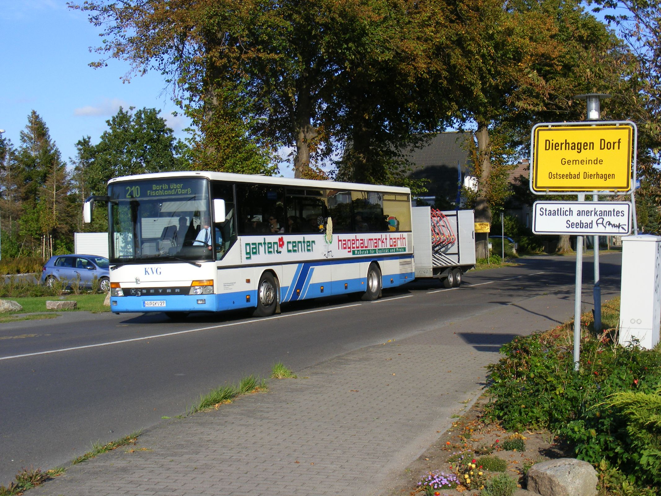 Setra NVP-KV 27 with bicycle trailer at Dierhagen Dorf on coastal route 210 to Barth of KVG of Ribnitz-Damgarten. Certain buses on this route have a trailer for bicycles, for which a supplementary fare of [#// Eur 2]is charged.